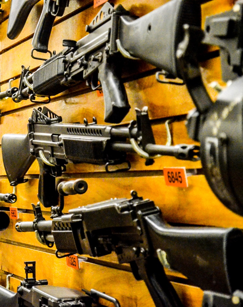 Stoner 63 Carbine (top,) Rifle (center,) and LMG (bottom) at the Rock Island Arsenal Museum